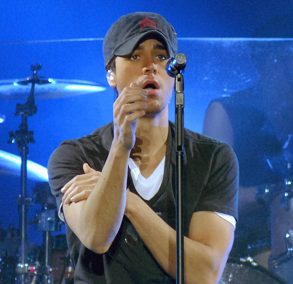 Enrique Iglesias, Vilnius, Lithuania 2007.11.29